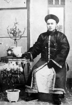 Fan Xiren